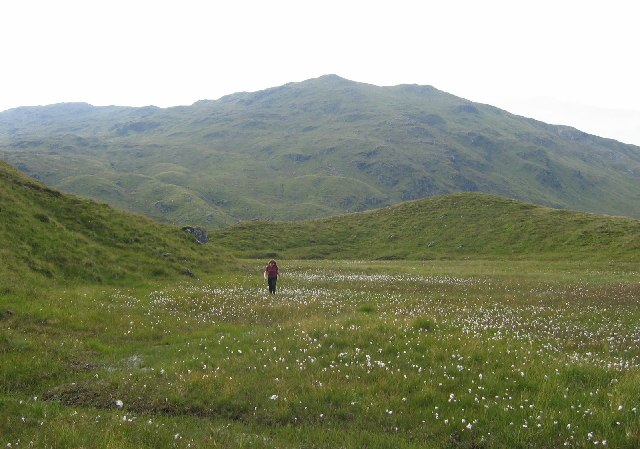 Cotton grass on Beinn Heasgarnich. Shallow lochans eventually end up like this, an area of marshland.